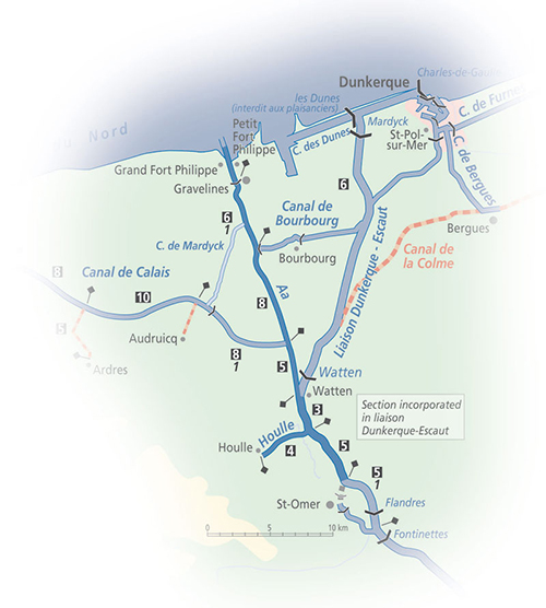 Location map showing the navigable length of the river Aa and its connections with other waterways